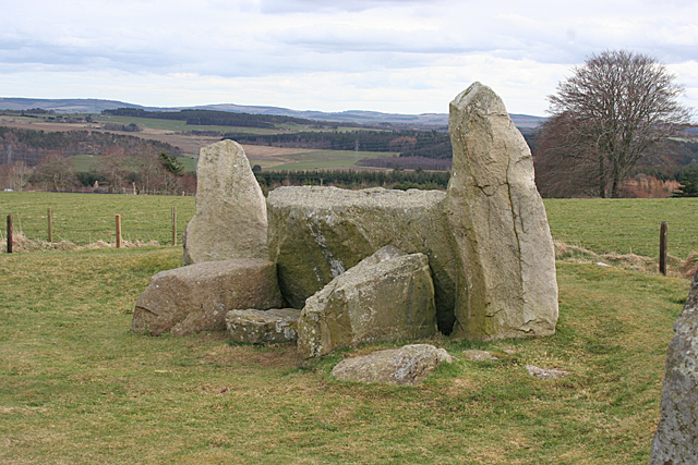 East Aquhorthies Recumbent Stone Circle (5)